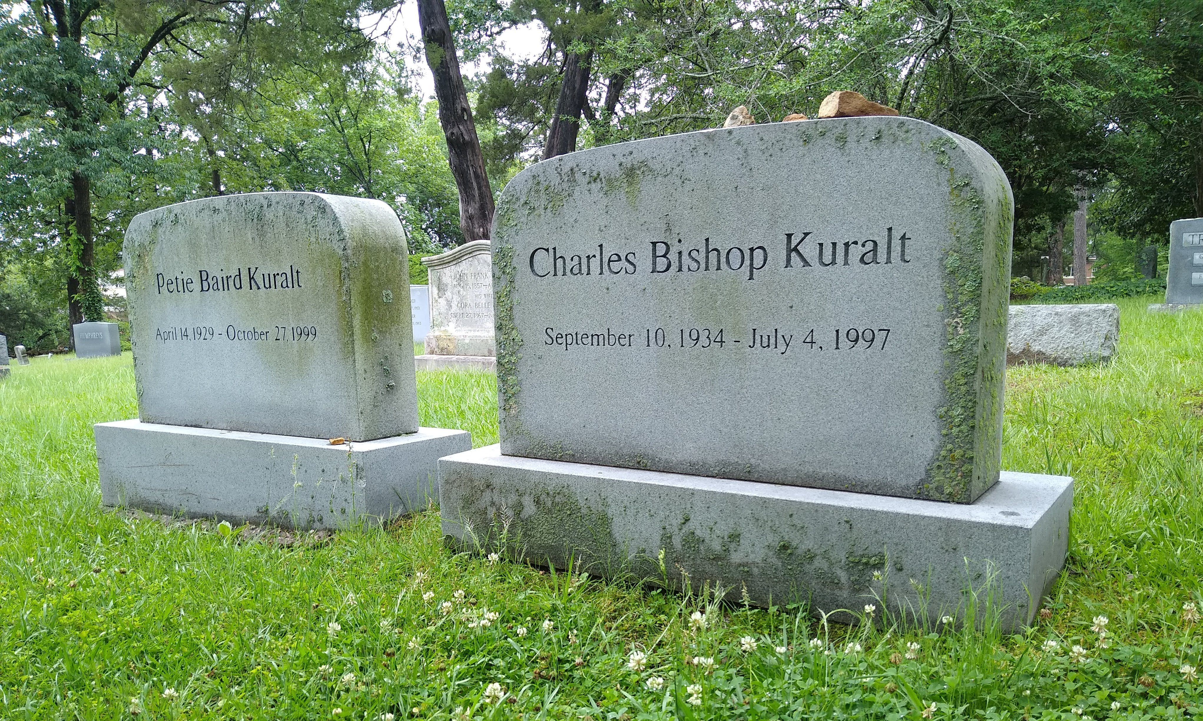 Tombstones of Charles Bishop Kuralt and Petie Baird Kuralt at the Old Chapel Hill Cemetery in Chapel Hill, North Carolina.